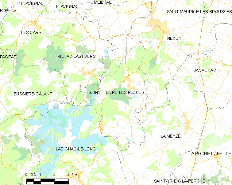 Map of French municipality Saint-Hilaire-les-Places